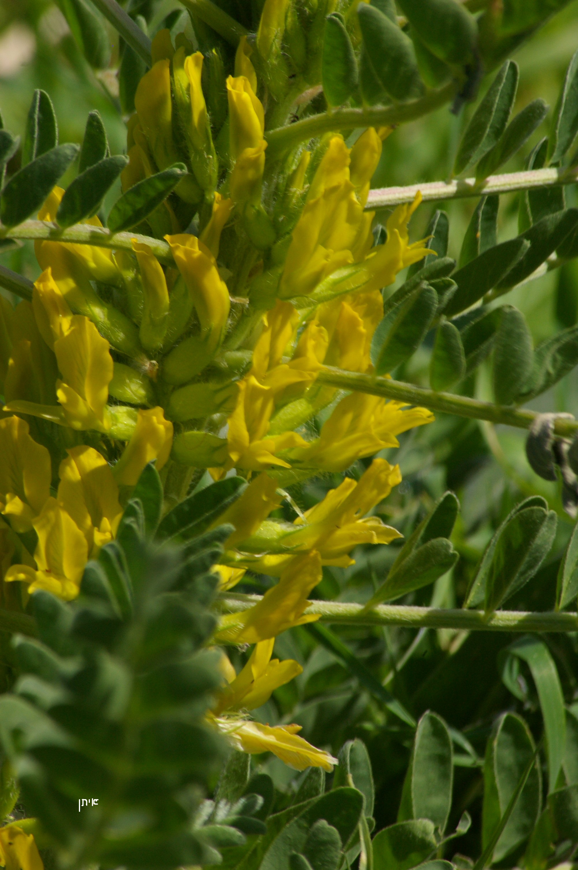 Astragalus macrocarpus קדד גדול-פרי, צולם ליד יקנעם